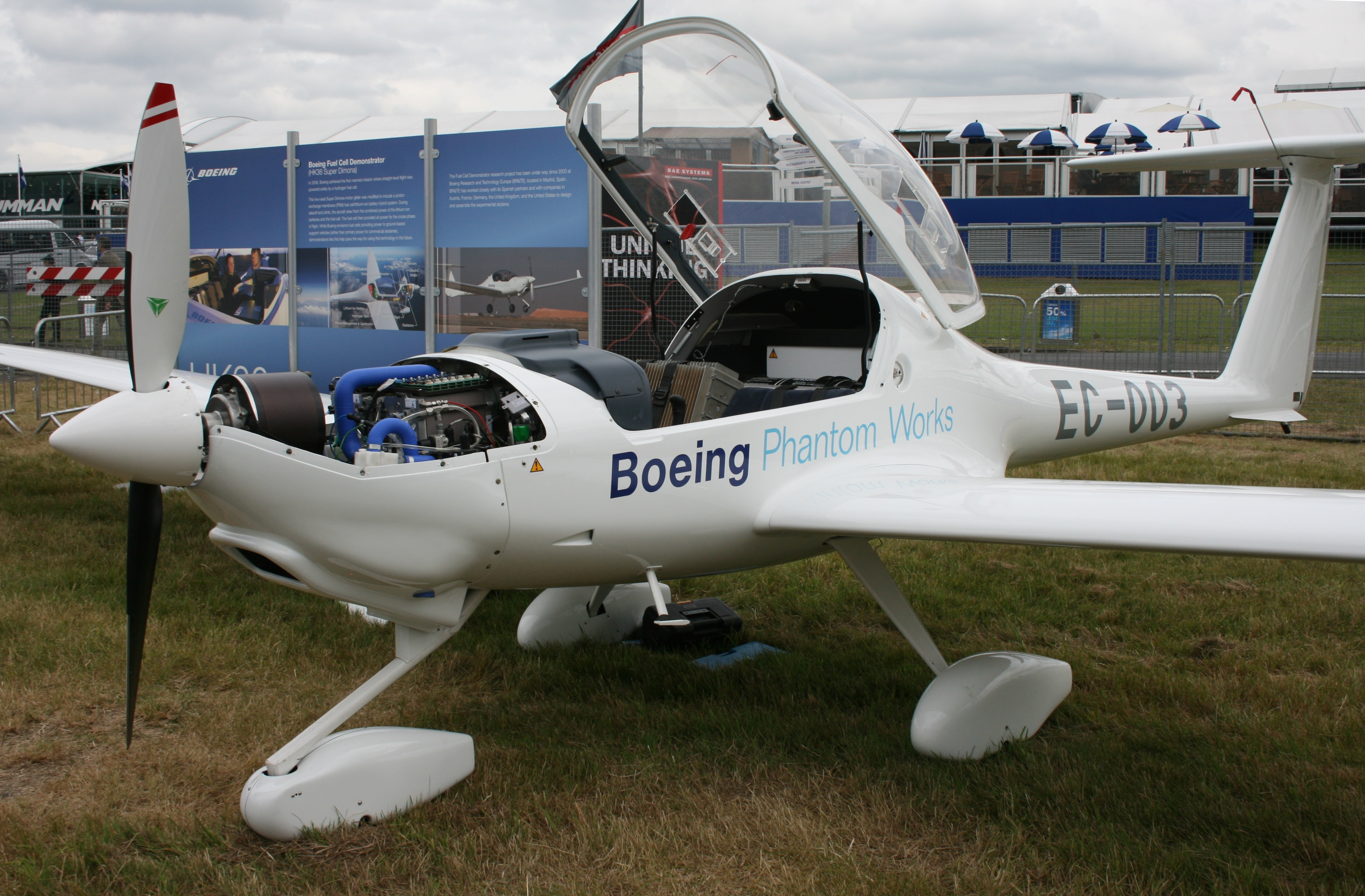 Boeing Fuel Cell Demonstrator (Diamond HK36 Super Dimona EC-003) on display at the 2008 Farnborough Airshow.